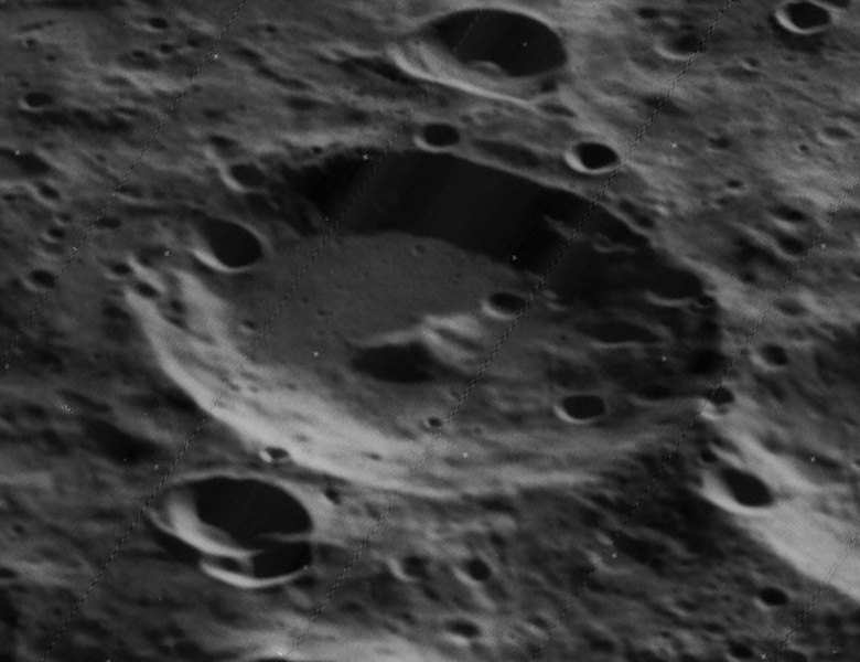 Oblique view of Leavitt, on the moon.